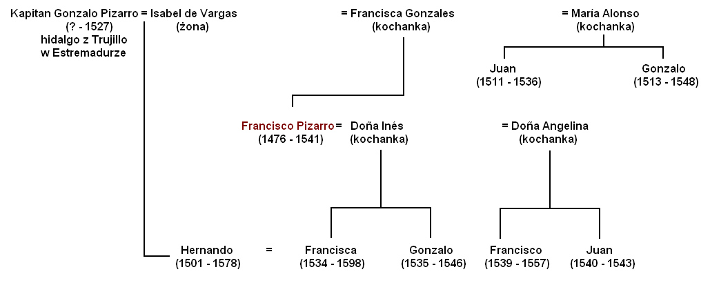 Family tree of the Pizarros.